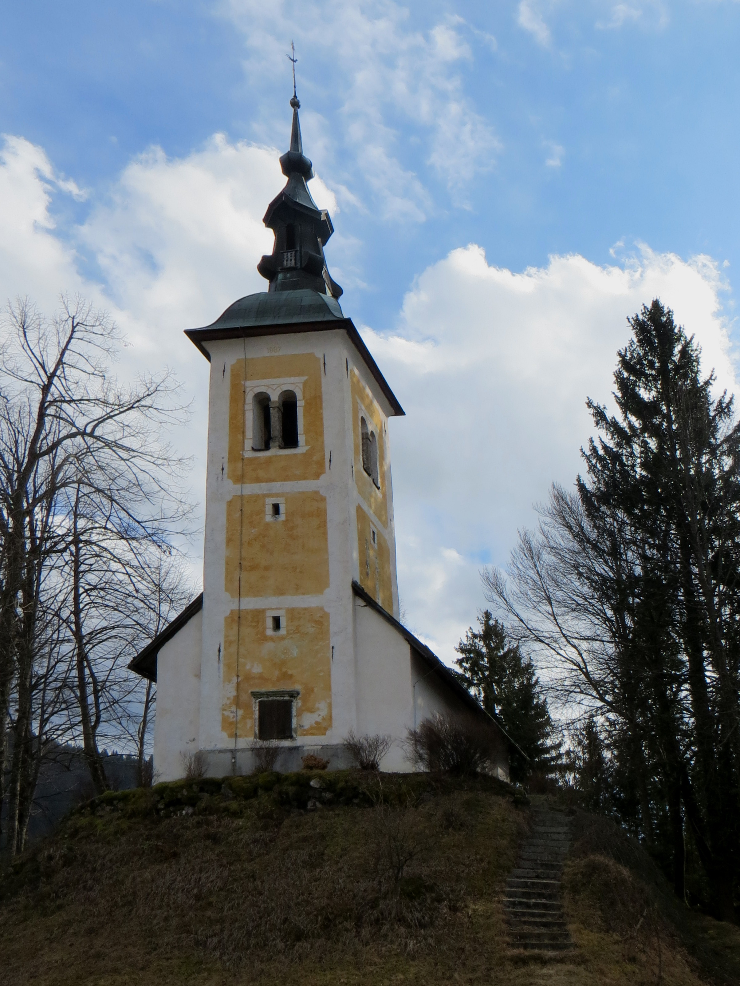 Saints Phillip and James Church in Valterski Vrh, Municipality of Škofja Loka, Slovenia